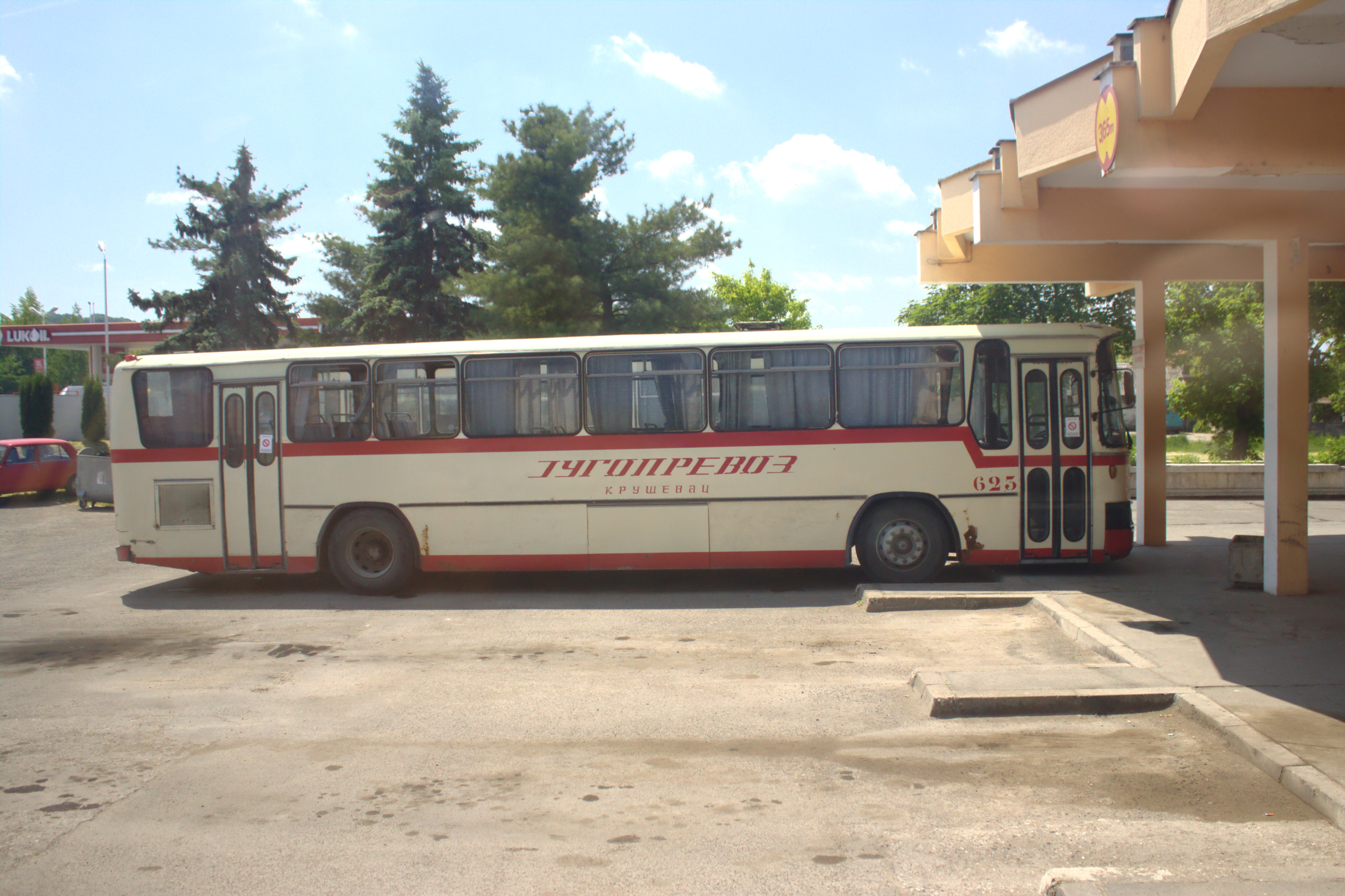 A bus of the Jugoprevoz Kruševac company waiting in Ćićevac bus station, Serbia